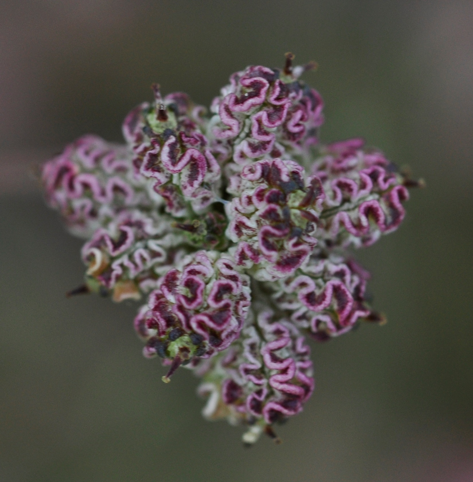 An endemic Crimean plant Rumia crithmifolia (Willd.) K.-Pol., the European Red list and the Red Book of Ukraine: Besh-Tash Ridge, Karadag Biostation, Sourth-Eastern Crimea, Automonuos Republic of Crimea. June, 2017. #flora_taurica